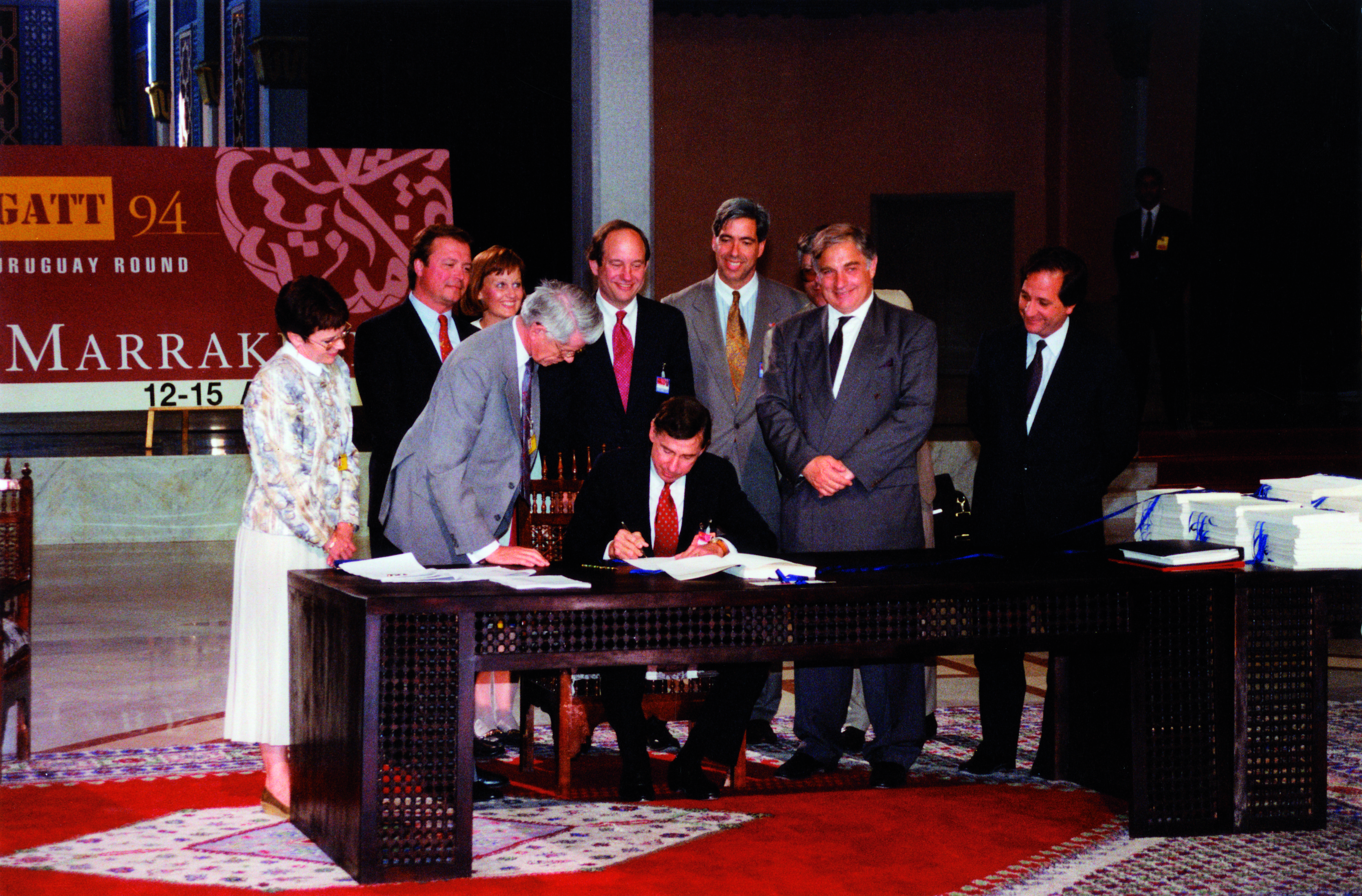 These photos may be reproduced provided attribution is given to the WTO and the WTO is informed. Photos: © WTO